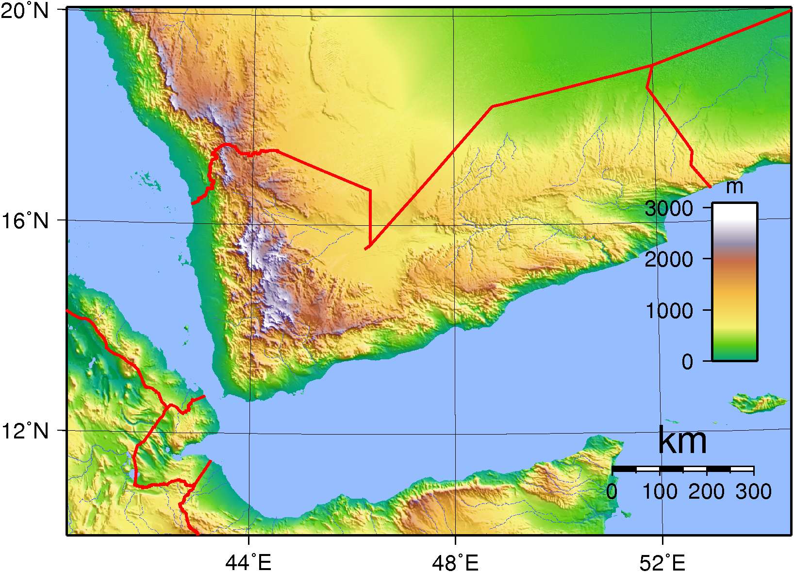 Topographic map of Yemen. Created with GMT from publicly released GLOBE data.[1]